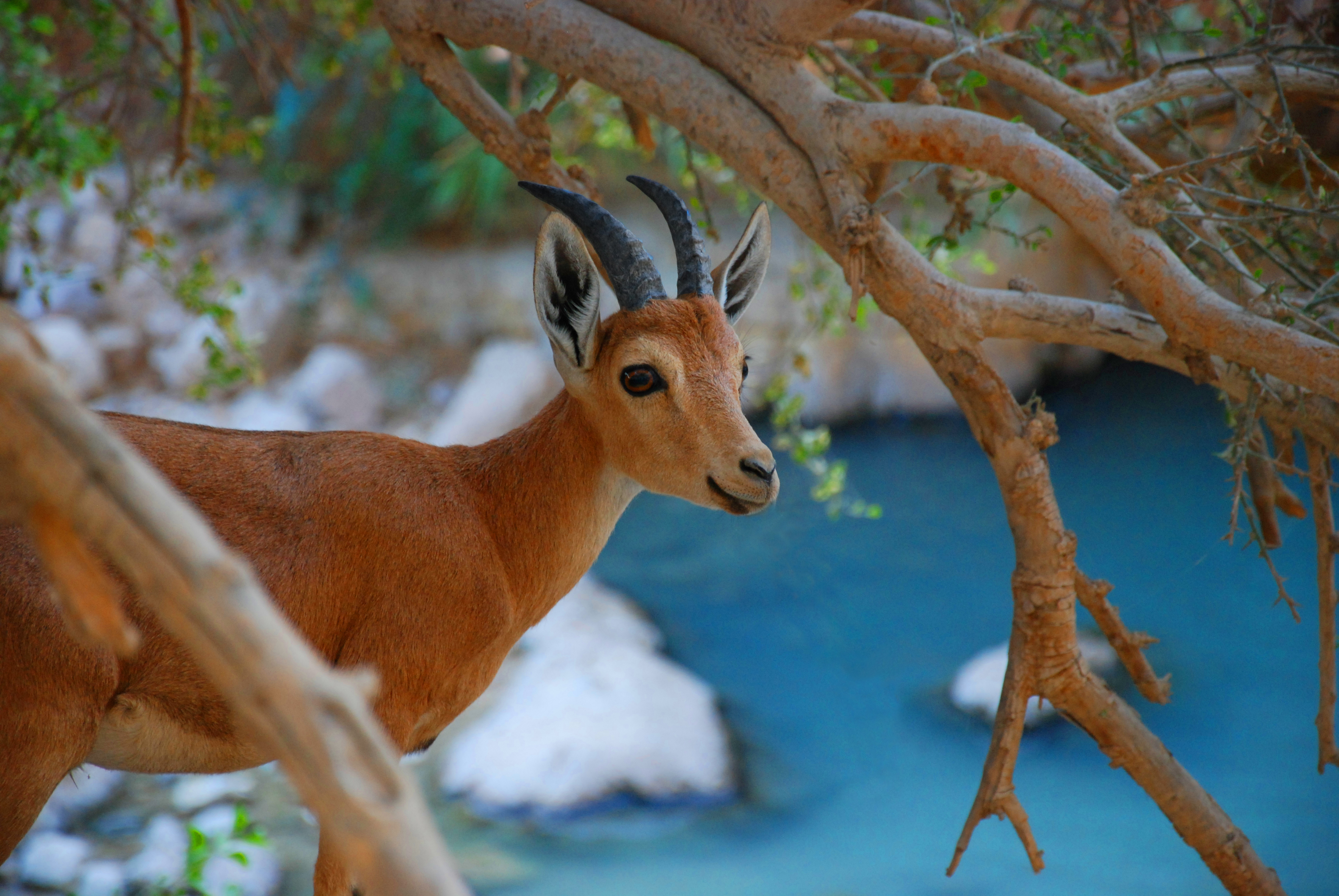 Nature and Colors